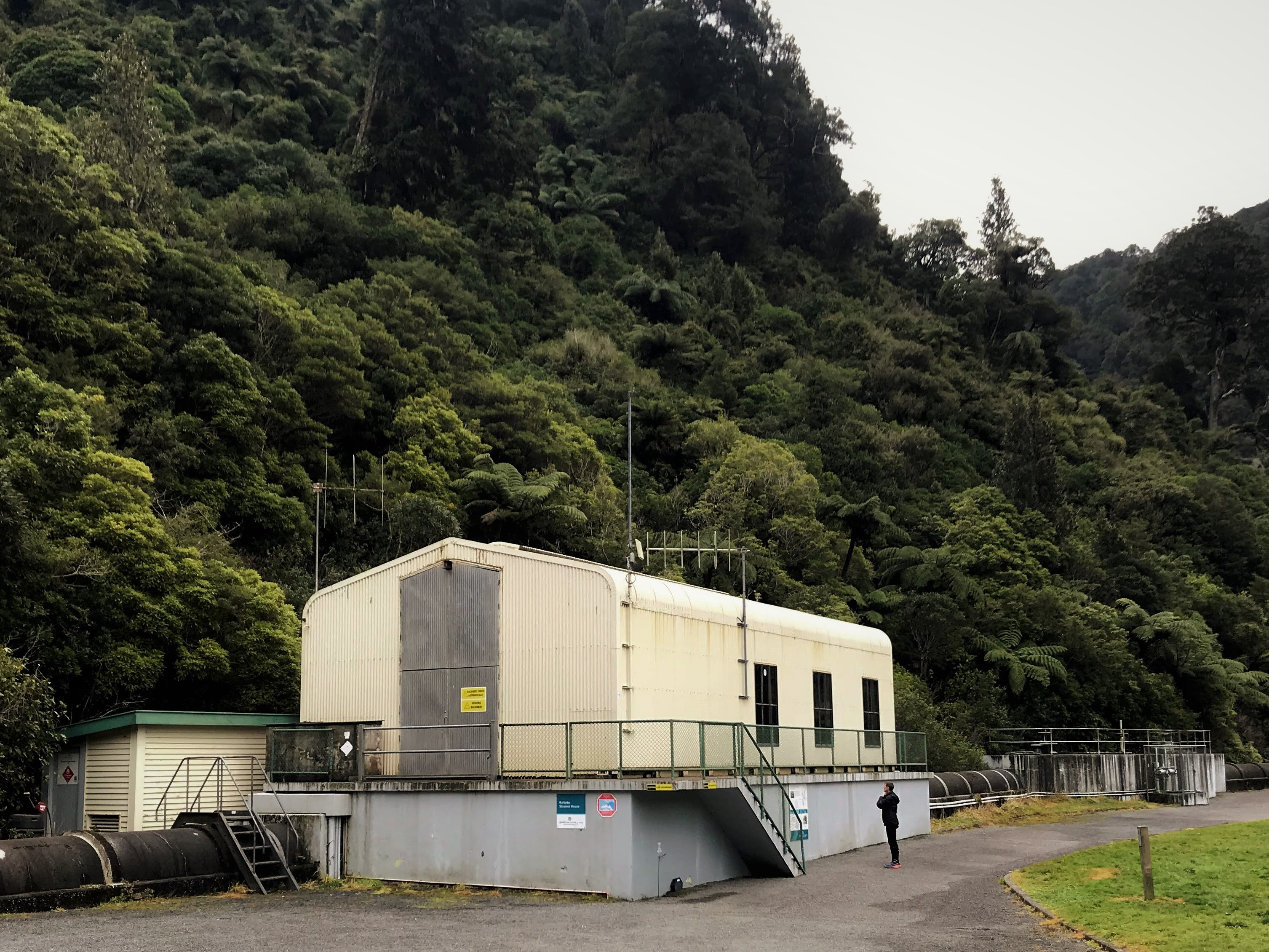 Water supply assets at Kaitoke that trap sand and strain out coarse material from the water extracted at the weir on the Hutt River.